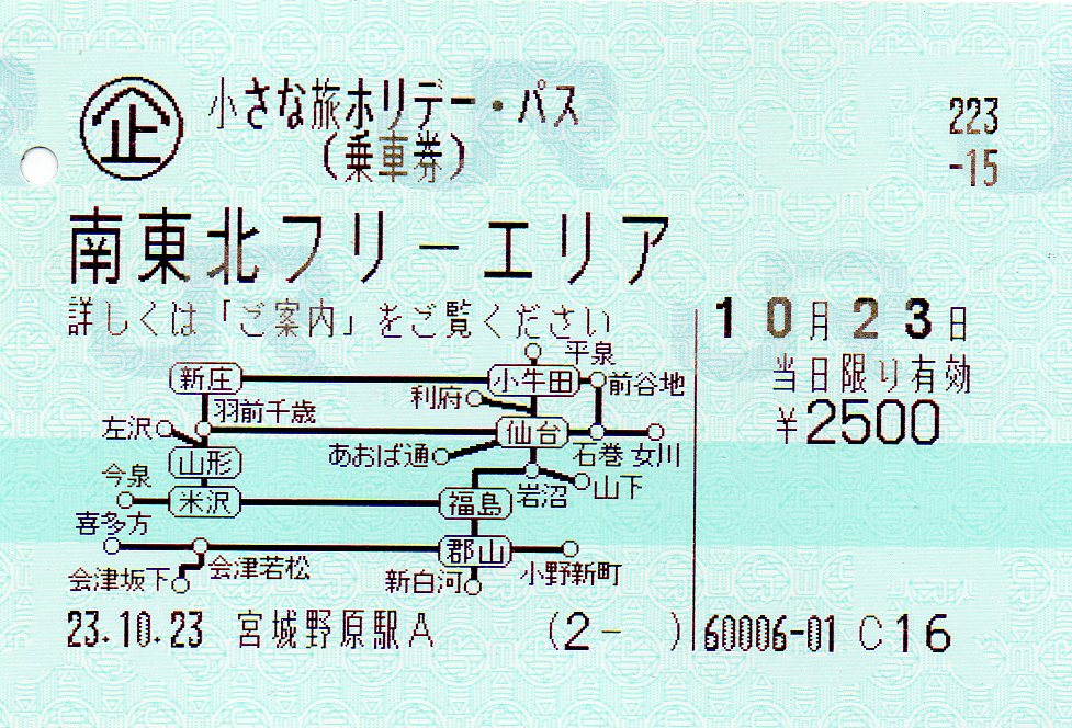 Chiisana Tabi Holiday Pass (for Southern Tohoku area), used on 23 October 2011